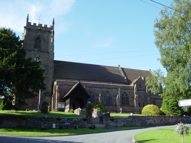 Church of St Swithun, Cheswardine. This is the Church of England Church in Cheswardine village. It is made of red sandstone, which is locally quarried. This is the third church built on the site, and was last rebuilt in 1886 to 1889 through the benevolence of Charles Donaldson-Hudson, the patron of the church and resident of Cheswardine Hall. The tower was not rebuilt, but St Katherine's chapel was moved further north and east.